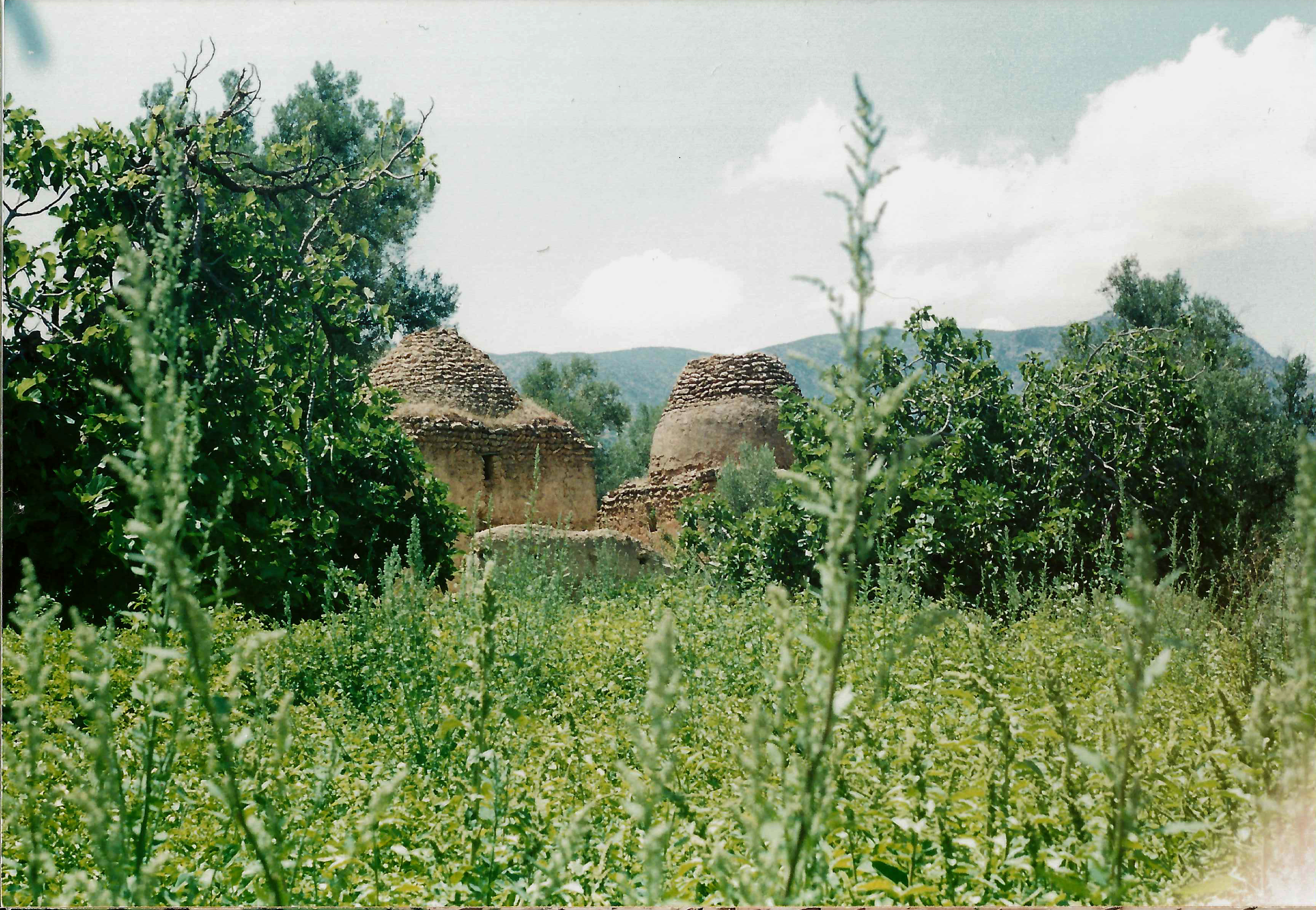 The qoubbas in the kasbah of Marinid in Debdou region Oriental of Morocco.